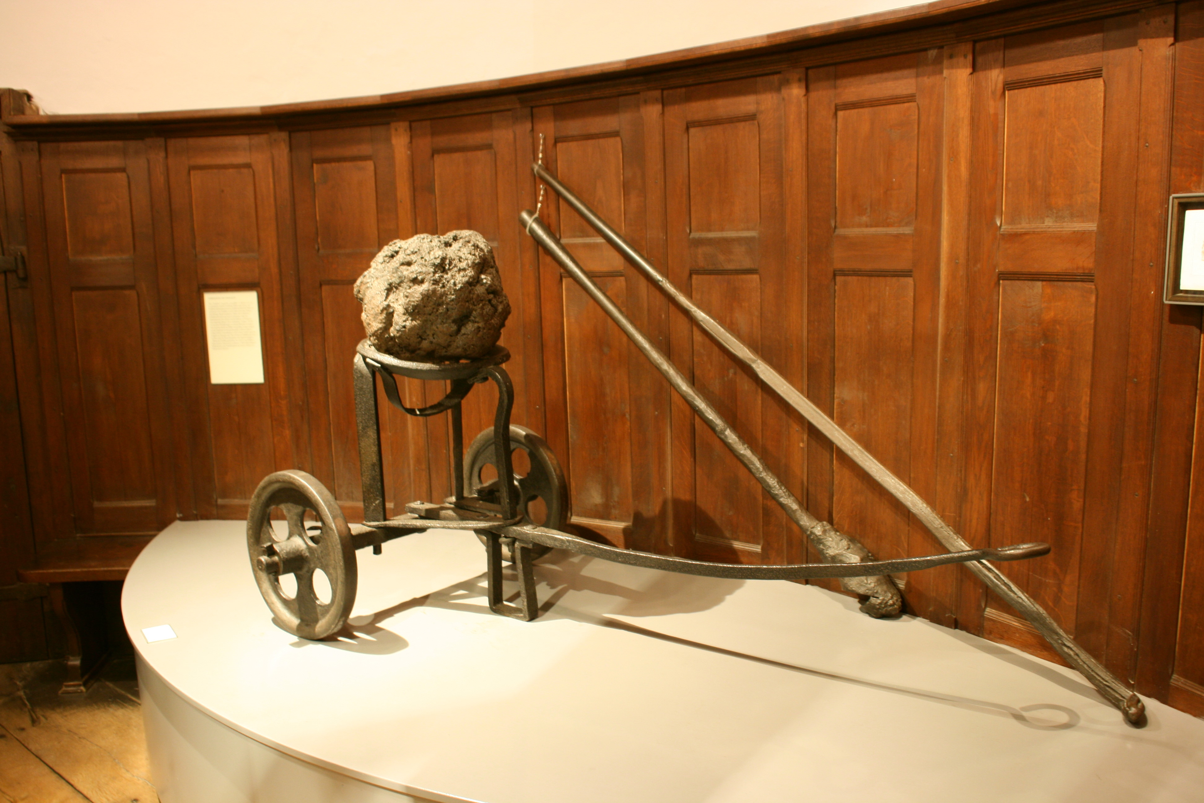 Clump of osmond iron in the museum of Burg Altena in Altena